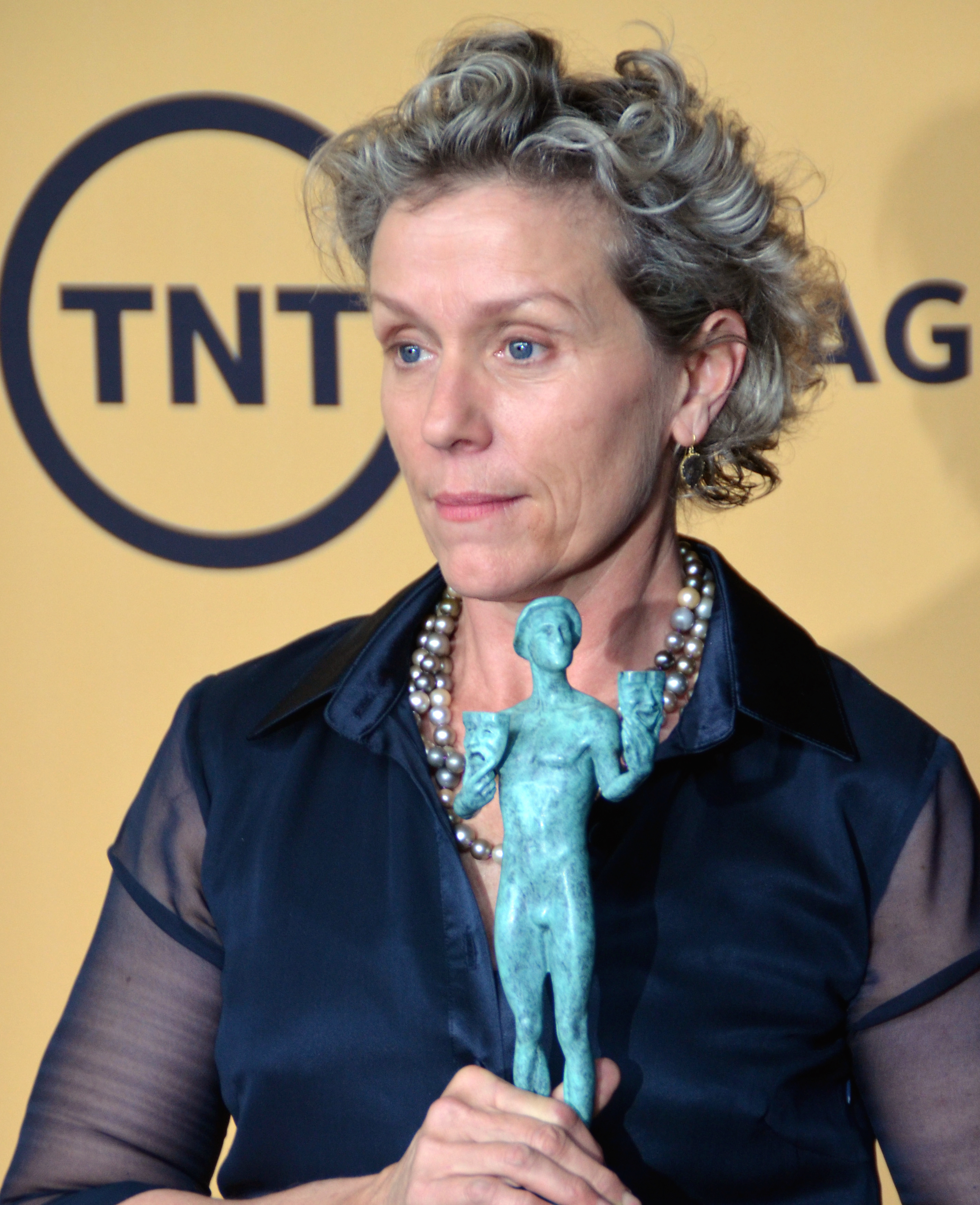 Frances McDormand (cropped)